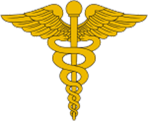 United States Army Medical Corps collar brass. Made with Photoshop.